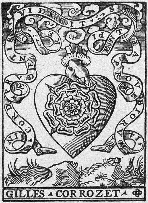 The printer’s mark of Gilles Correzet of Paris from a work he published in 1541